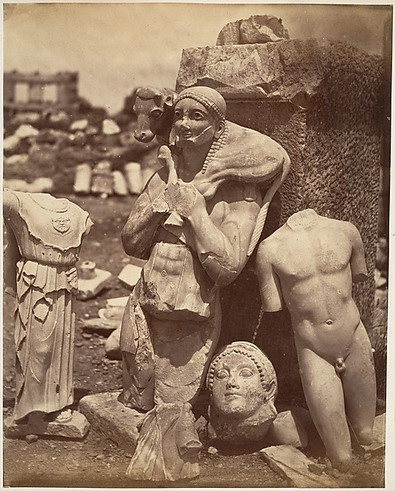 Shortly after excavation on the Acropolis.Ca. 1865.jpg